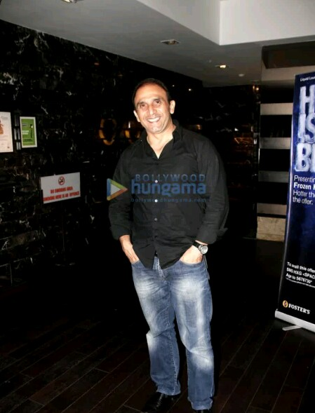 Kanwarpal at Sooraj Thapar's house warming.